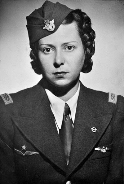 Mariana Drăgescu, 2nd lieutenant, in 1941.